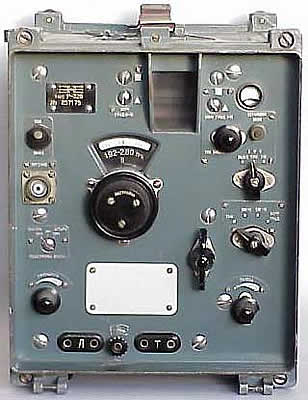 R-326 HF receiver (USSR)